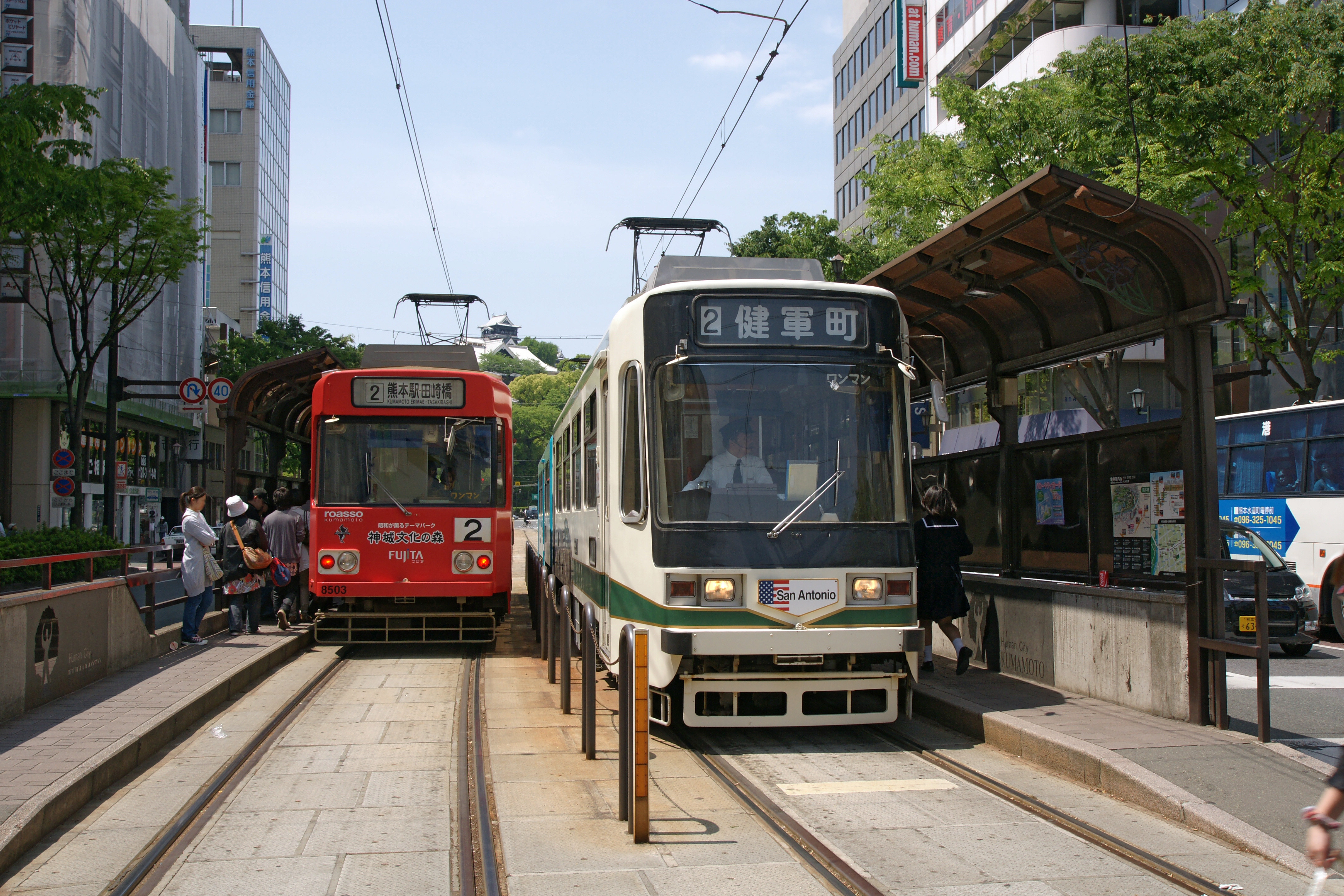 Torichosuji Station, Kumamoto, Kumamoto prefecture, Japan